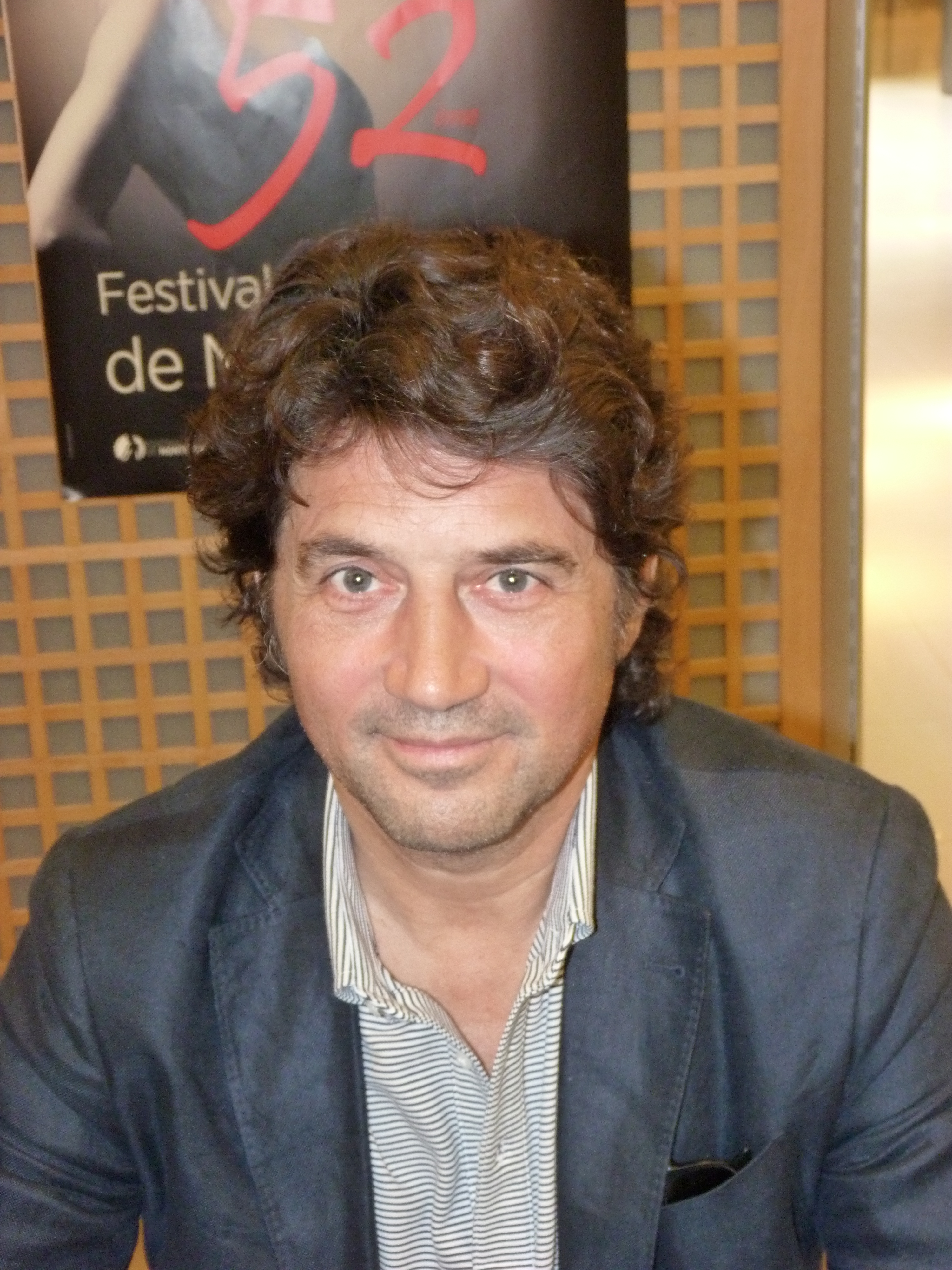 Bruno Madinier at the 2012 Monte-Carlo Television Festival.